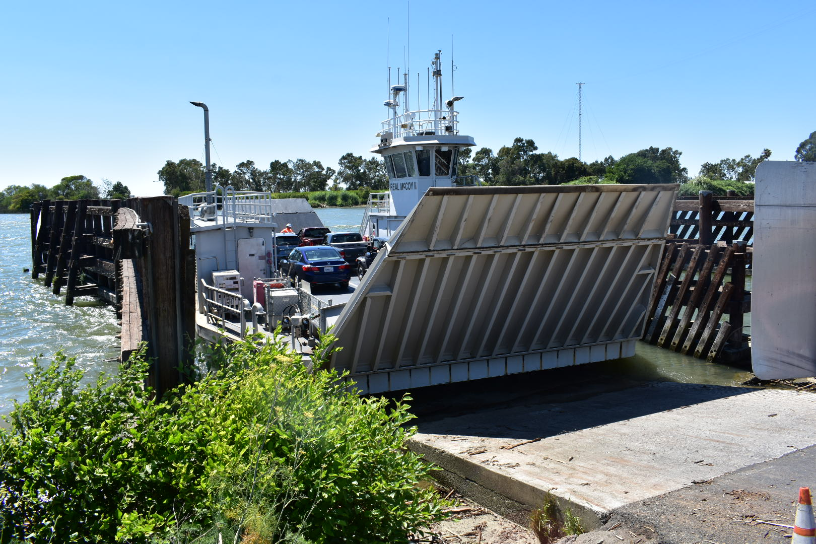 The Ryer Island ferry, called the "Real McCoy II". Photo by Jim Heaphy.